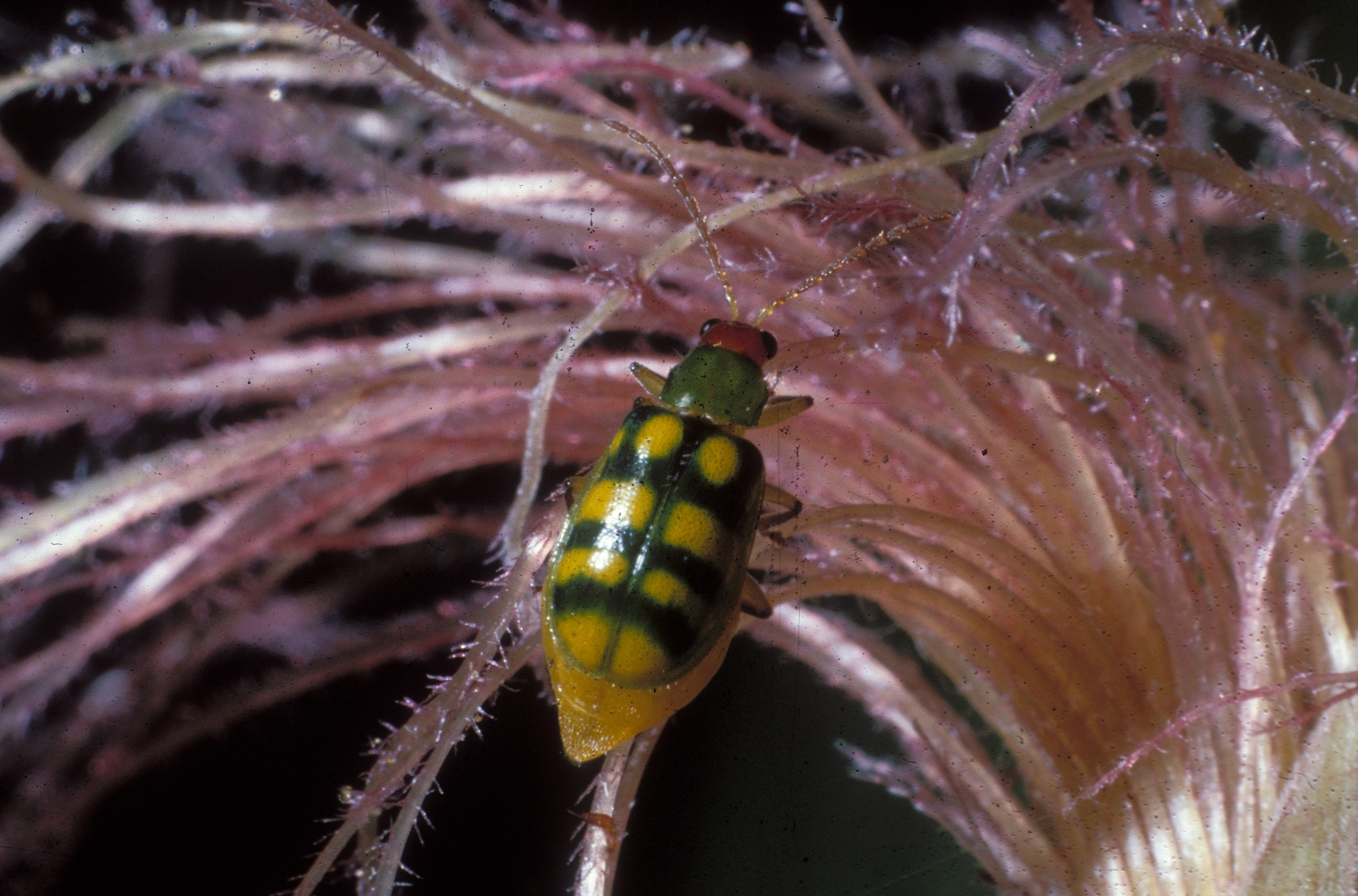 Diabrotica balteata in corn sik, Honduras